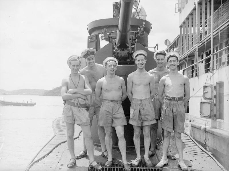 Officers and Men of HMS/M Trident. 27 July 1945. Officers and men of HMS TRIDENT, Left to right: back row: Chief Petty Officer P H Redman, Little Hampton, Sussex; Petty Officer G King, Bognor Regis. Front row: Able Seaman N M Shaw, Gosport, Hants; Petty Officer W Curtis, Ashford, Kent; Leading Stoker T Buddy, Gosport; Leading Telegraphist W Adams, Gosport.